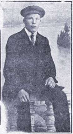 Finnish Civil War red guard commander Lauri Kara of the Hyvinkää red guards.